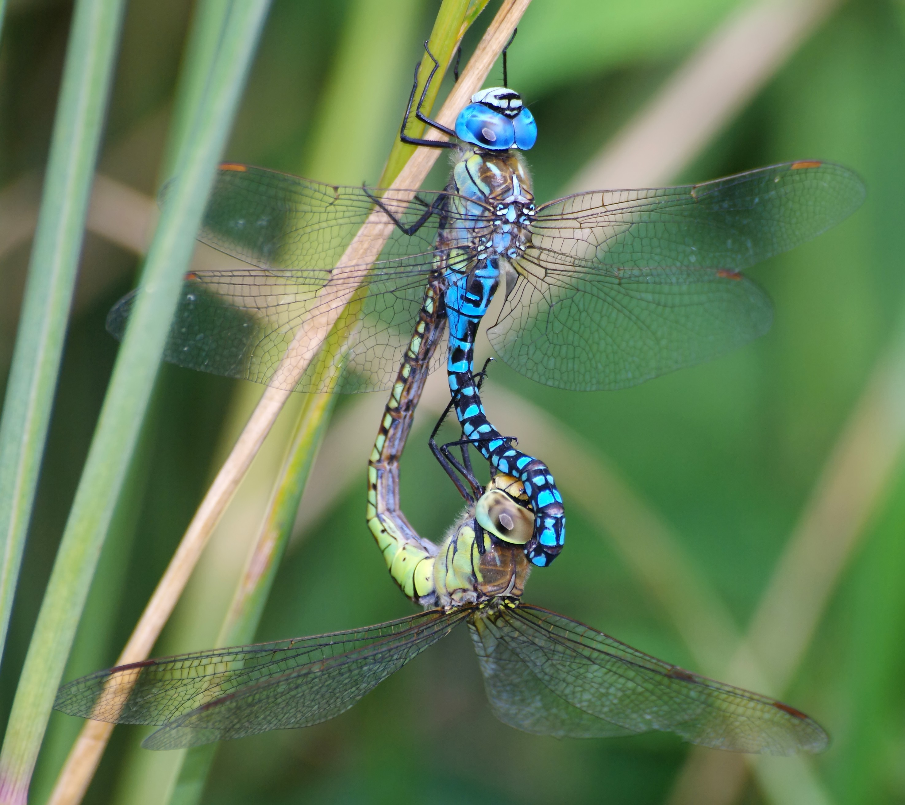 Mating wheel (copulation) of the dragonfly Blue-eyed Hawker (= Southern Migrant Hawker), Aeshna affinis.